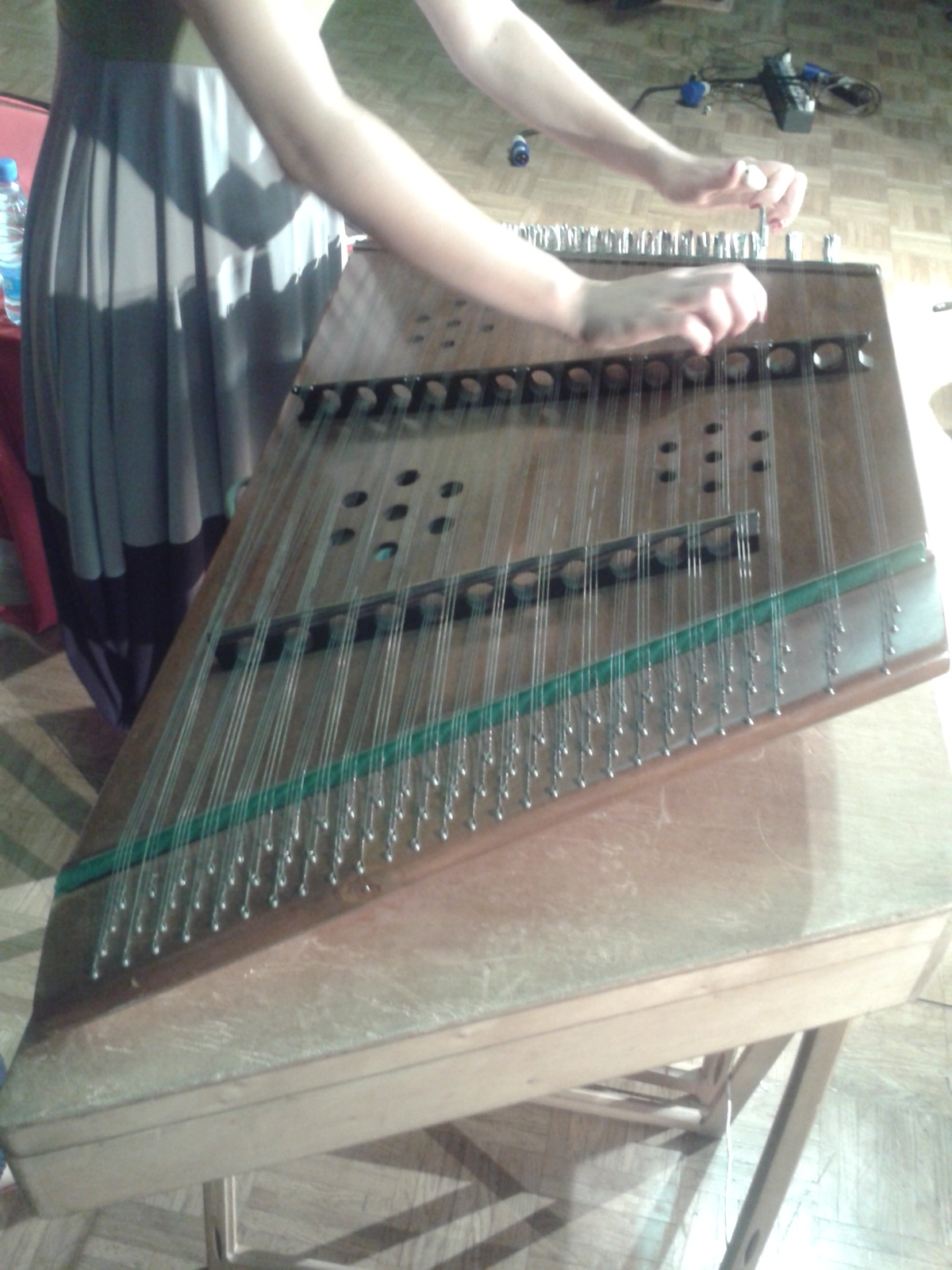 Nina Volk tunes a dulcimer. Šentrupert, southeastern Slovenia.